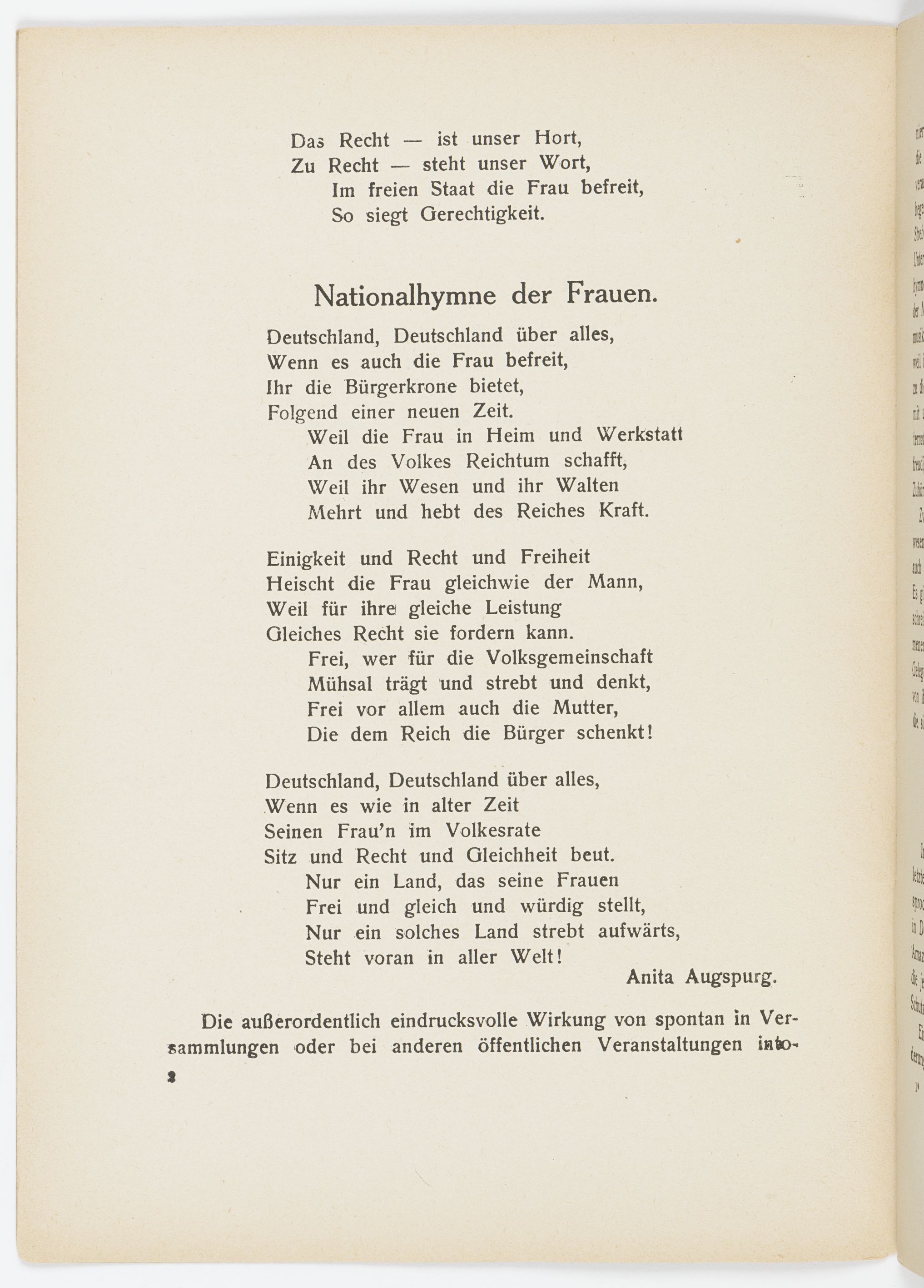 "Frauenstimmrecht. Monatshefte des deutschen Verbandes für Frauenstimmrecht" (Women's Suffrage, monthly issues of German association for women's suffrage) Vol. 1, Issue 1/2, April/Mai 1912, page 2, edited by Dr. Anita Augspurg. Cover of journal issue, paper, printed. Contains song text "Wake-up call for Women's suffrage". Photo of issue in repository of Archiv der deutschen Frauenbewegung (Archive of German Women's Movement), Kassel. Photographer: Horst Ziegenfusz on behalf of Historisches Museum Frankfurt (Historical Museum Frankfurt). Previous page published in Dorothee Linnemann (Hrsg.): Damenwahl! 100 Jahre Frauenwahlrecht. Begleitbuch zur Ausstellung. Societäts-Verlag, Frankfurt am Main 2018, ISBN 978-3-95542-306-3, p. 38.